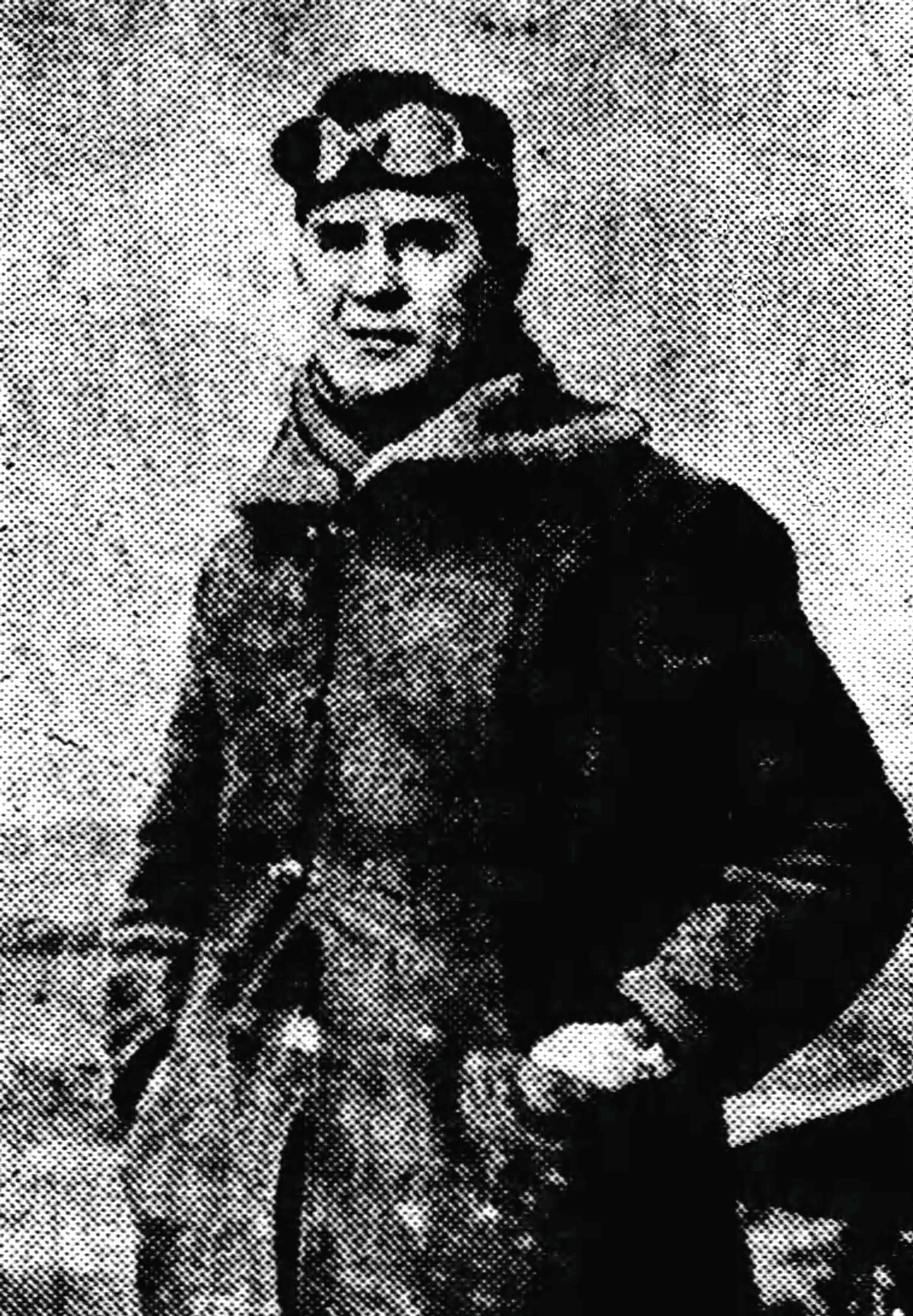 Clair Kenamore, American journalist, from a photograph appearing in the St. Louis Post-Dispatch on May 11, 1919